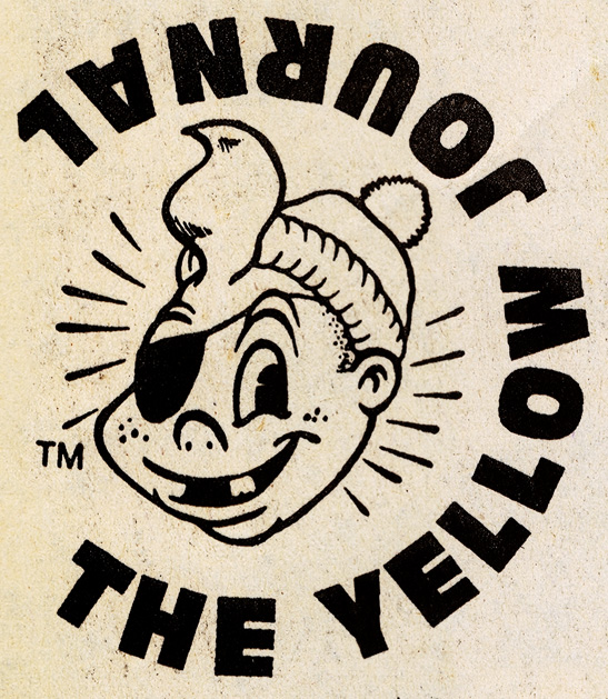 Mascot logo used by The Yellow Journal during the 1990s